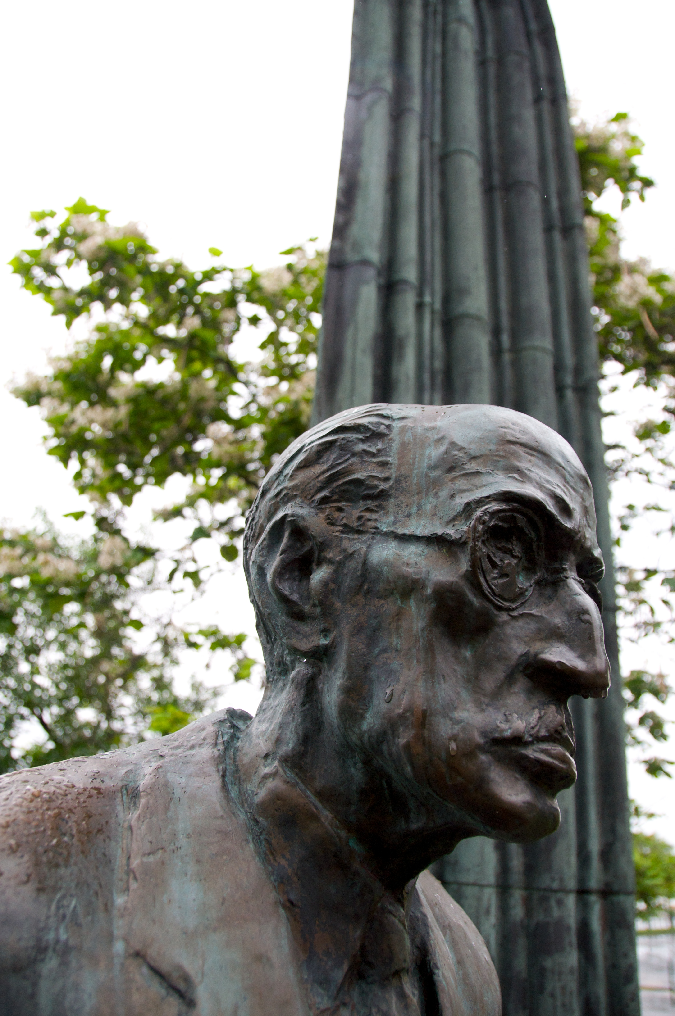 Mihály Károlyi, Prime Minister of Hungary 1-16 Nov 1918 and President 16 Nov 1918 - 21 Mar 1919